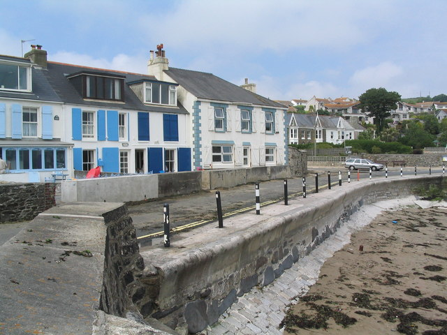 Portmellon Note the stout shutters on the front doors - for keeping storm water out.